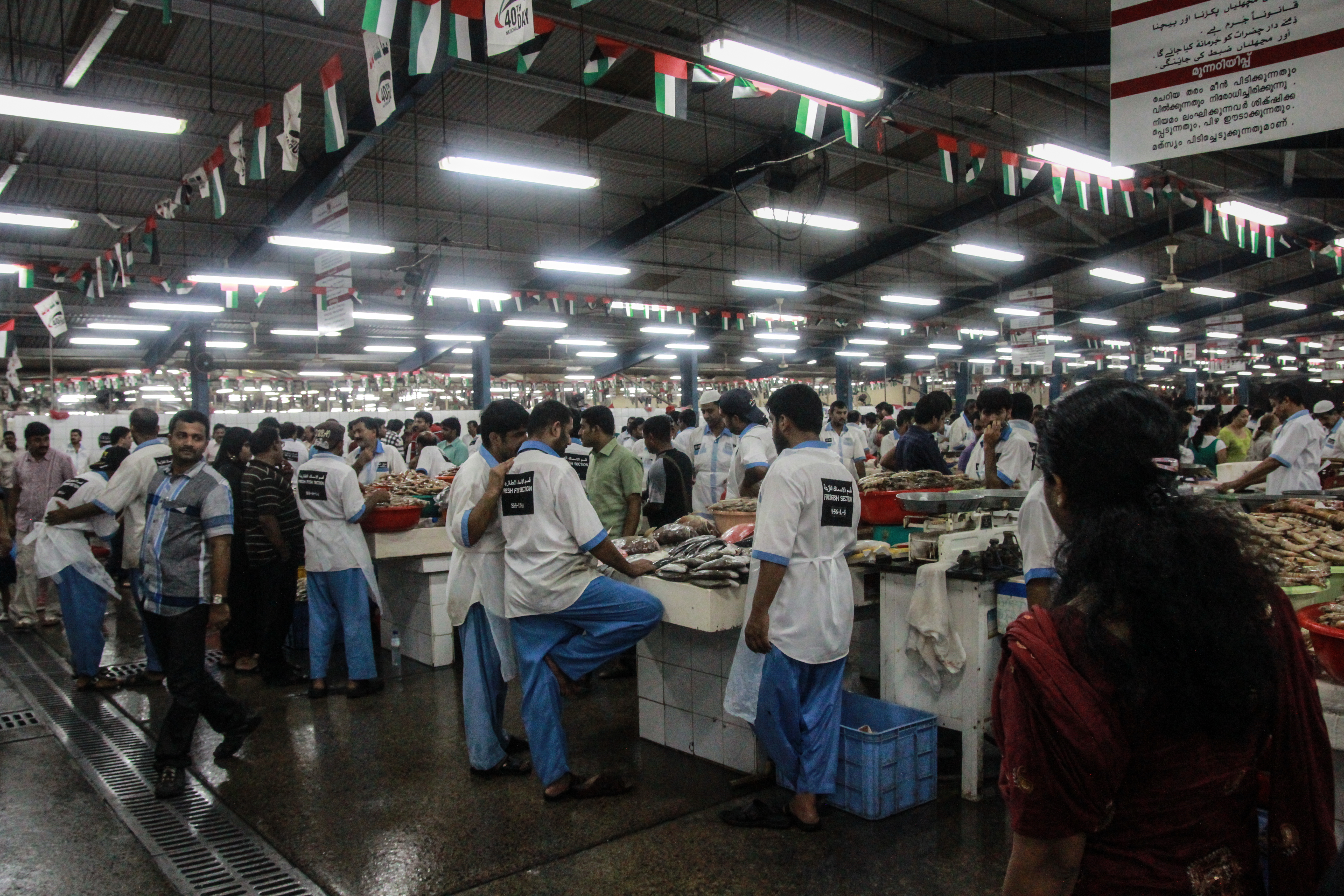 Fischmarkt Dubai